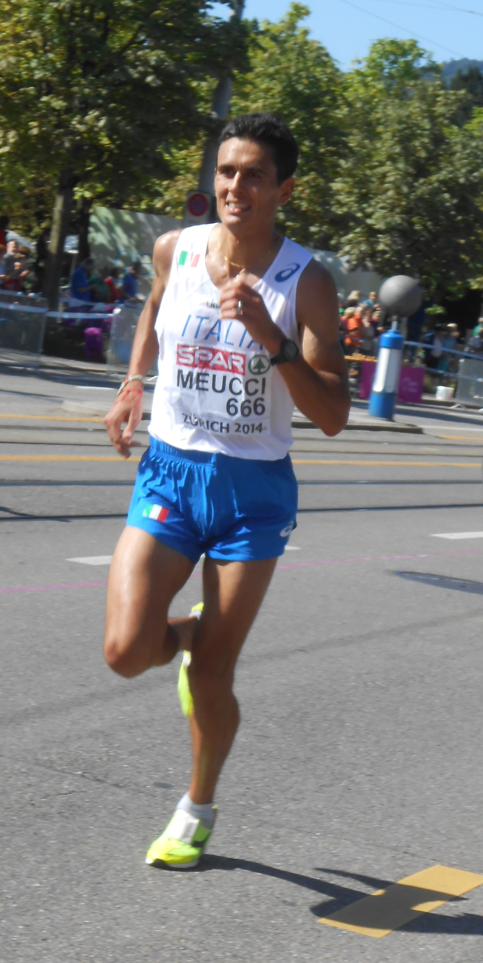 Daniele Meucci at the 2014 European Athletics Championships marathon.